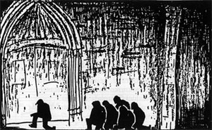 Gernikako Marijesiak